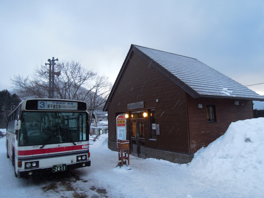 Hokkaido Chuo Bus Shikotsuko (Lake Shikotsu) Bus Stop in Chitose City, Hokkaido, Japan